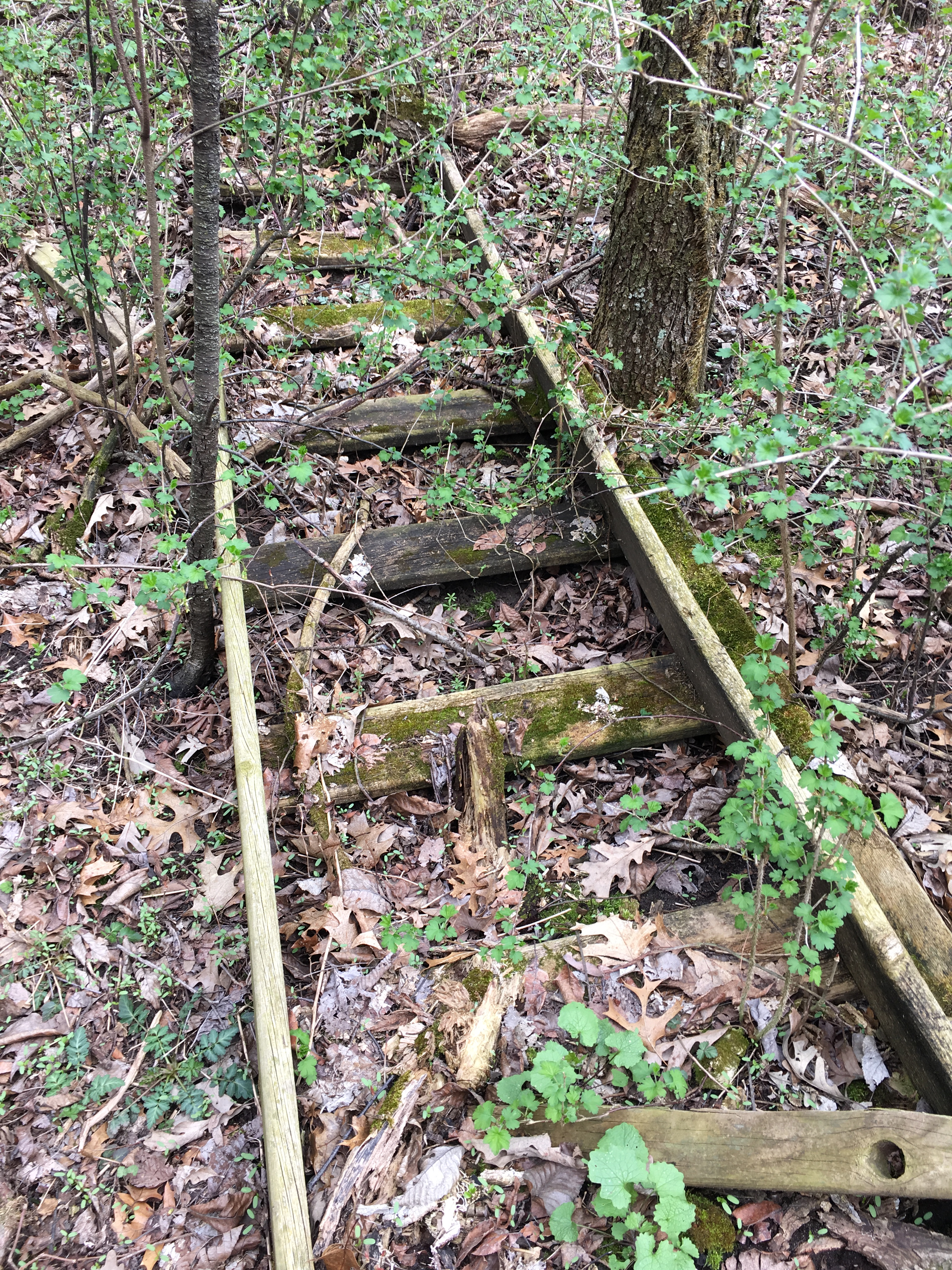 Wood framing for something discovered at the Chamberlin Springs site, 2017.